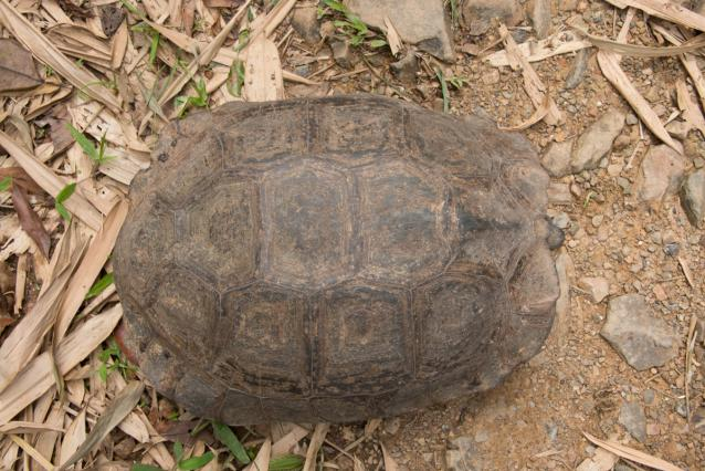 The carapace of an Asian forest tortoise (Manouria emys), taken in Kaeng Krachan National Park in Thailand.